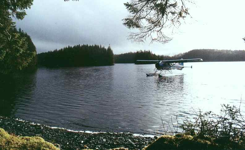 Laura Lake, Afognak Island State Park